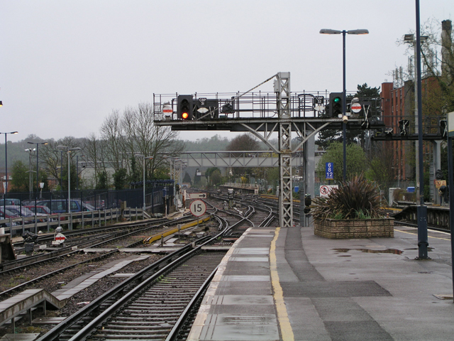 The down line from Horsham railway station Creative Commons Attribution Share-alike license 2.0 Licensing This image was taken from the Geograph project collection. See this photograph's page on the Geograph website for the photographer's contact details. The copyright on this image is owned by Andy Potter and is licensed for reuse under the Creative Commons Attribution-ShareAlike 2.0 license. Attribution: Andy Potter